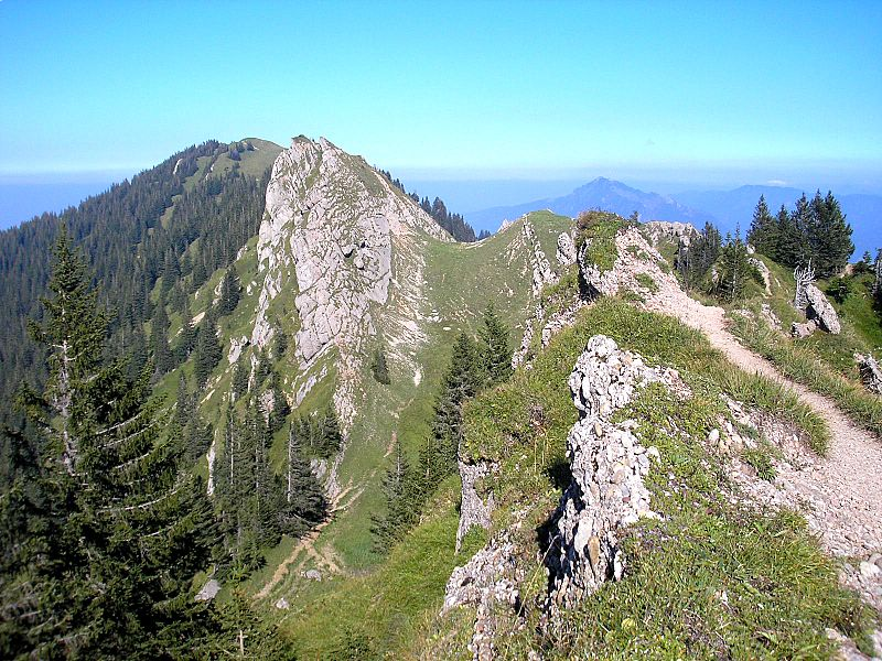 Steineberg (1660 m) near Immenstadt (Nagelfluhkette, Allgäu Alps, Bavaria, Germany). The Steineberg (left), seen from the ridge of the Nagelfluhkette